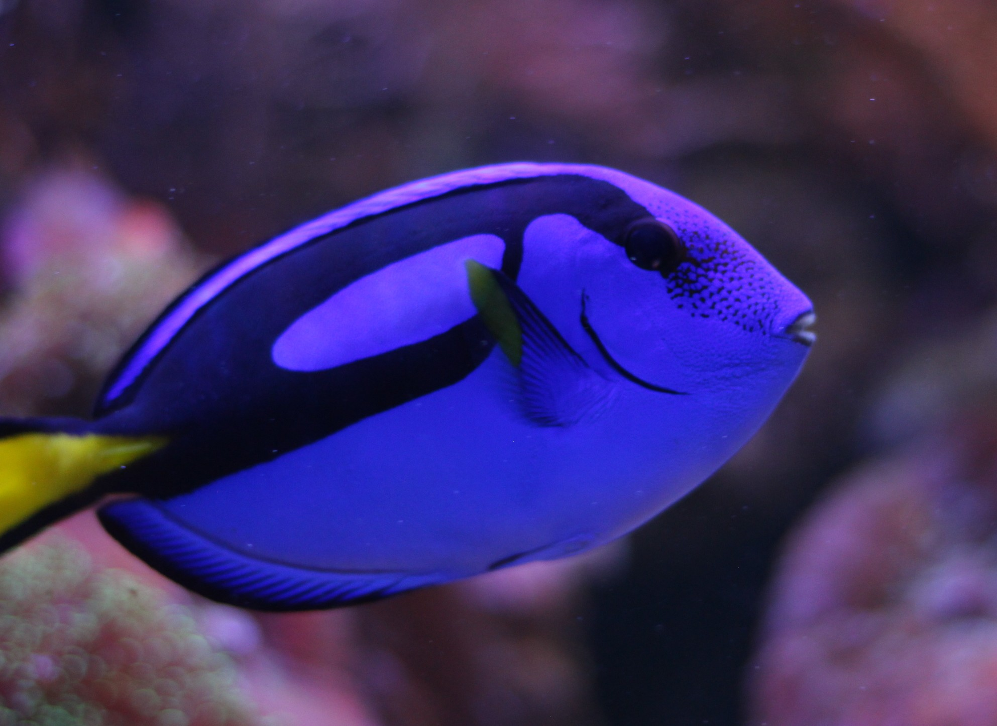 Royal blue tang. This image has been originally created as the illustration for animals quiz at . It has been released under CC-BY-3.0 license.